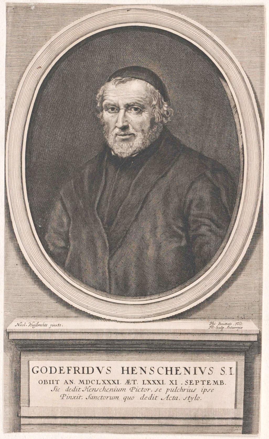 Godefridus Henschenius (1600-1682), Jesuit, Bollandist